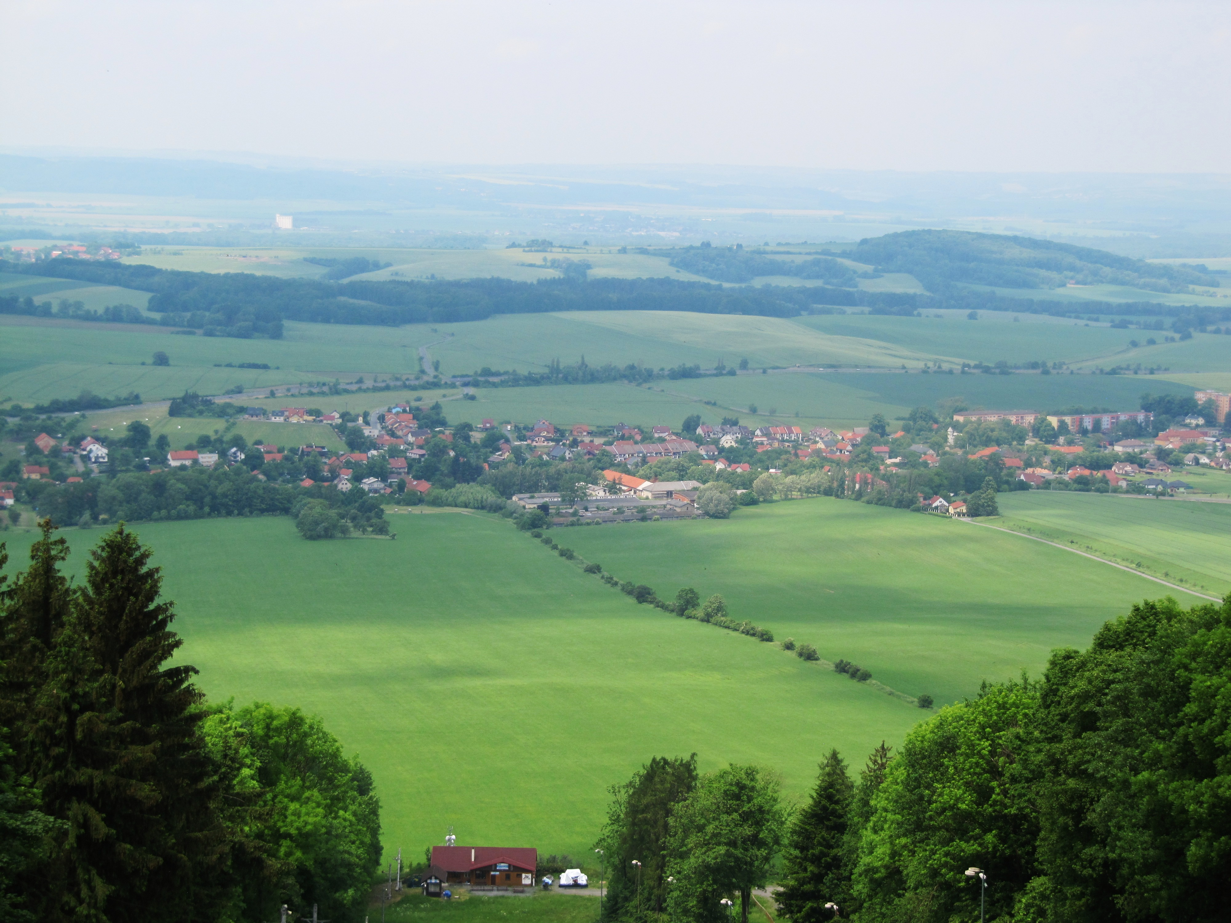 Nový Jičín, Czech Republic, part Loučka.